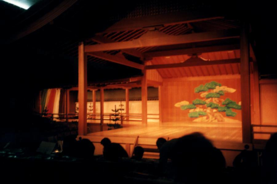 A Noh stage